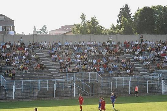 Izola city stadium, home of FC Bonifika Izola, west, during a match against FC Drava